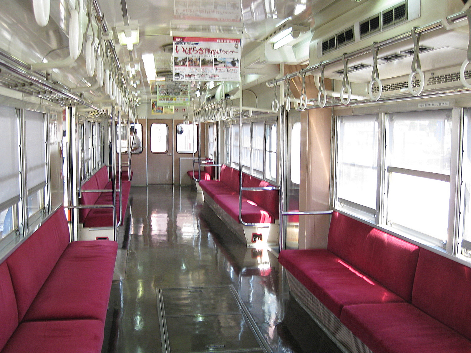 Kanto Railway Type Kiha532. Inside of guest room (Japan).